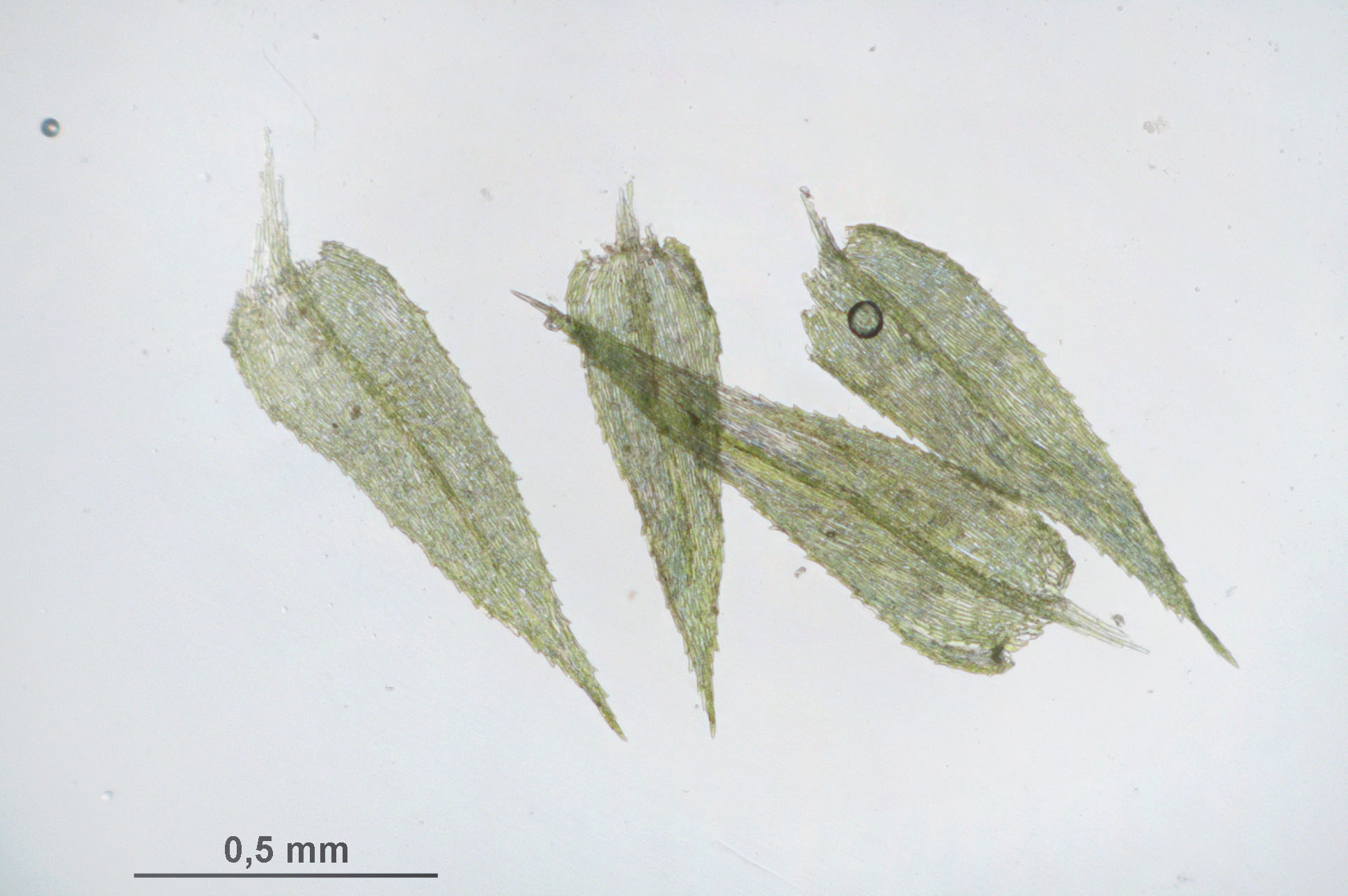 Kindbergia praelonga